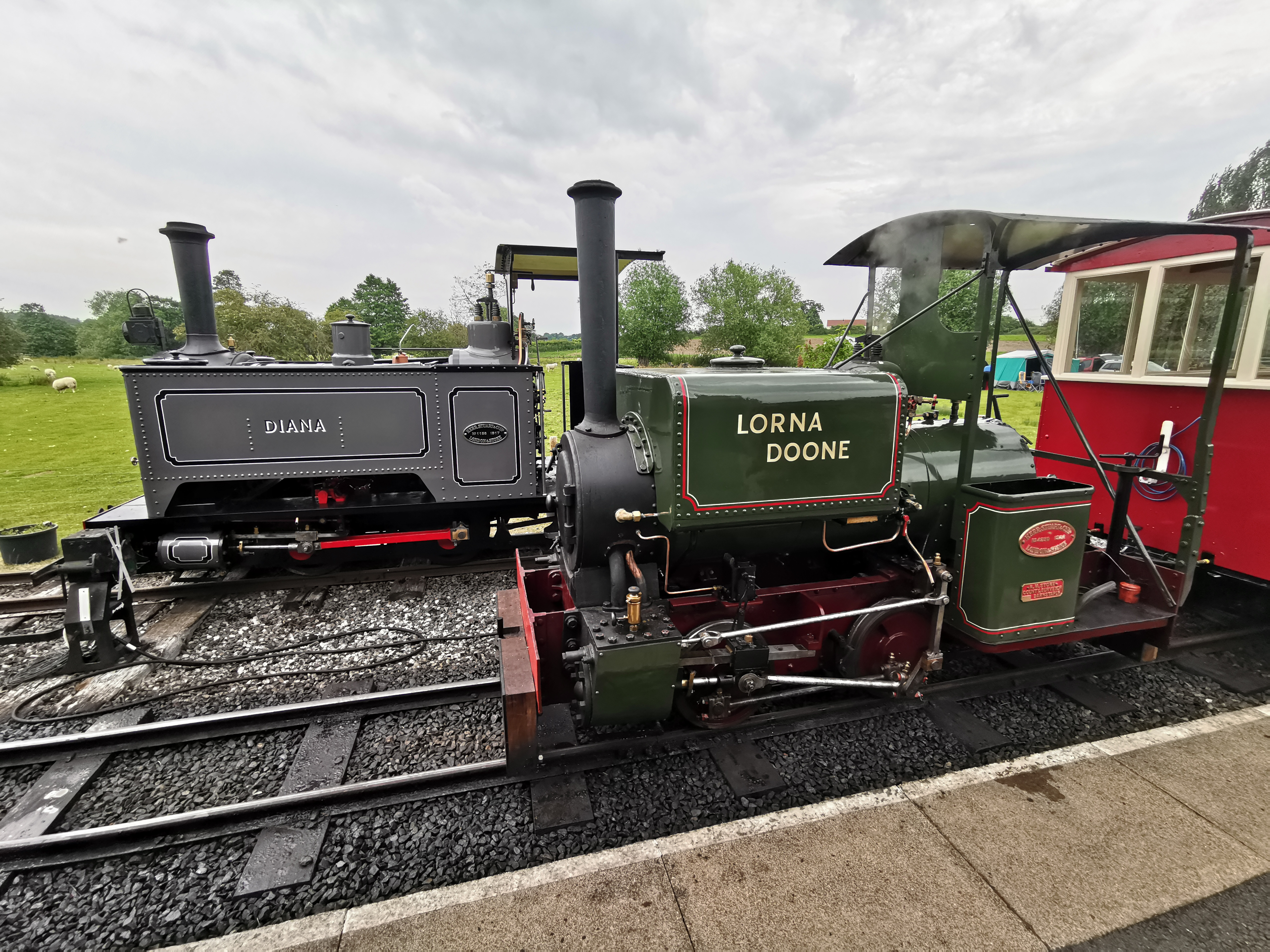 A photograph showing Kerr Stuart & Co locomotives Lorna Doone and Diana at Amerton Railway.